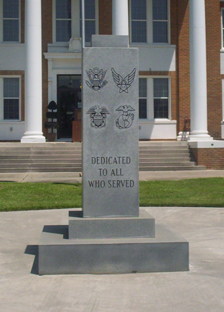 Memorial to Evans Countians who served in World Wars I and II, Korea and Vietnam.